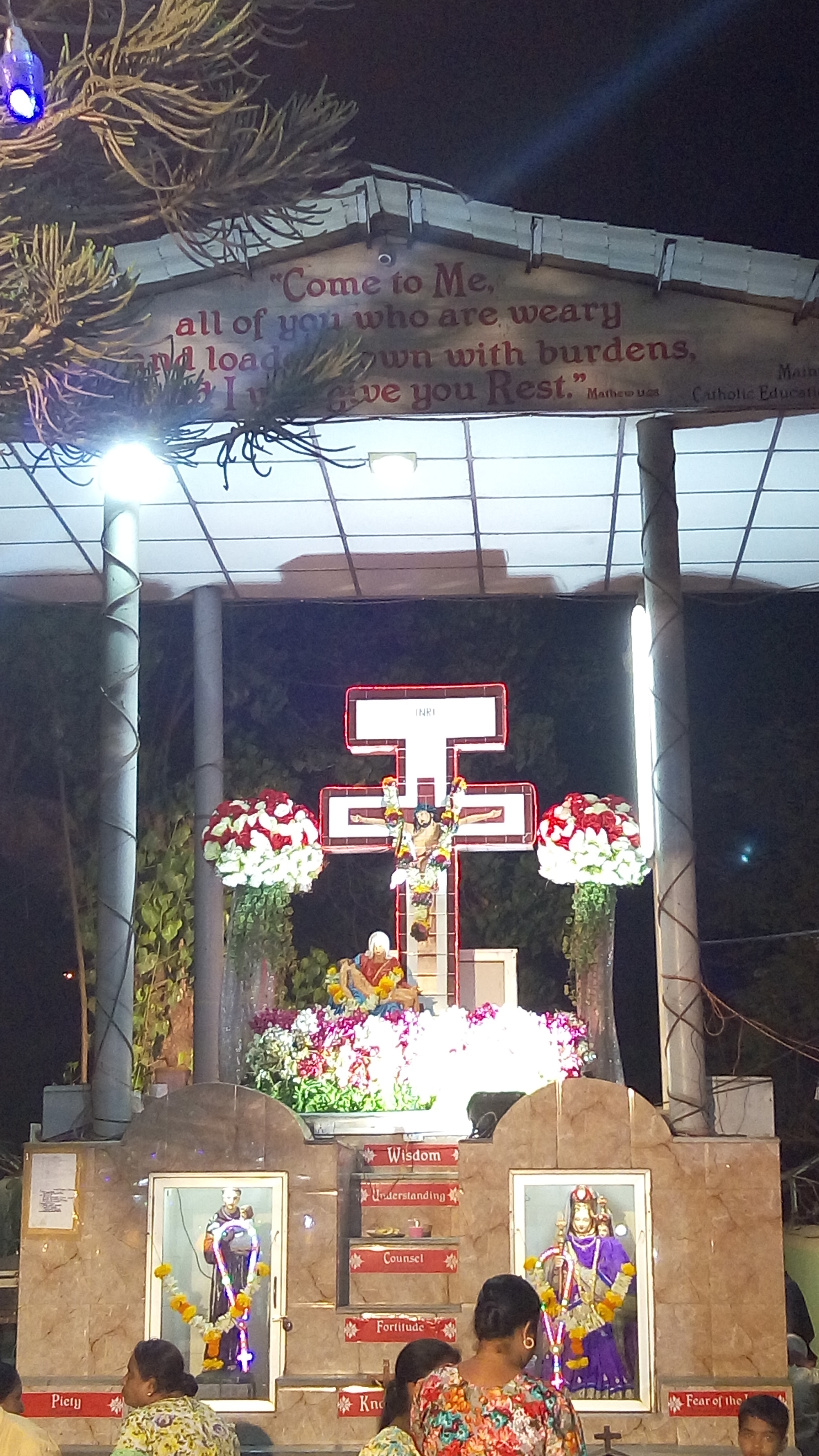 This cross stands at the entrance of Kurla Christian village. It is one of the oldest cross in the locality.